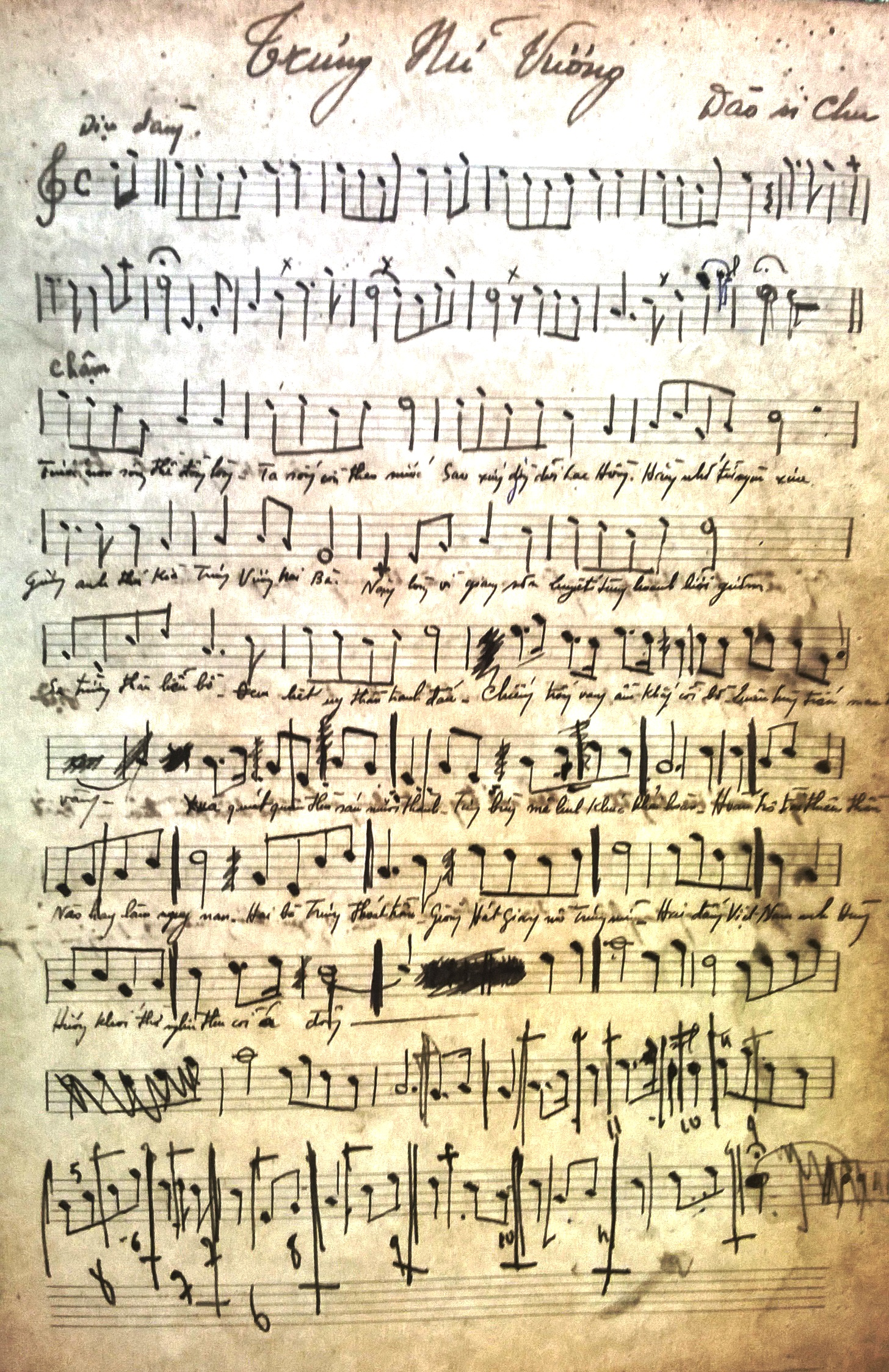 Queen Trưng